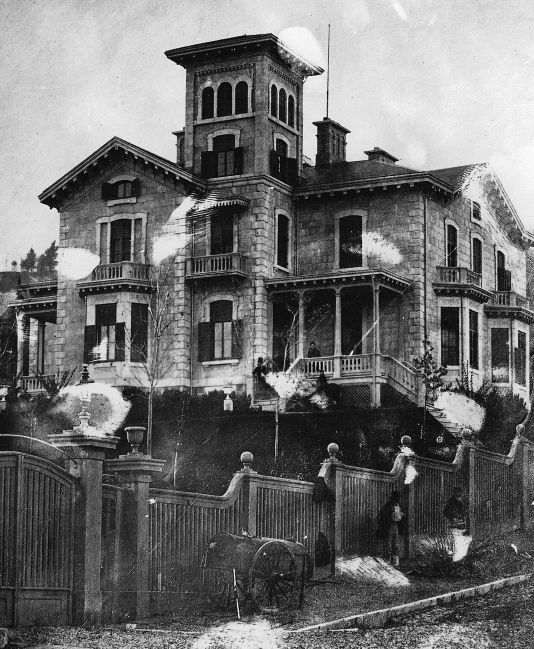 The Lyman house, "Thornhill", McTavish Street, Montreal, QC, about 1870; 1926, 20th century; Silver salts on film (nitrate ?) - Gelatin silver process; 25 x 20 cm; Purchase from Associated Screen News Ltd.; II-273864.0